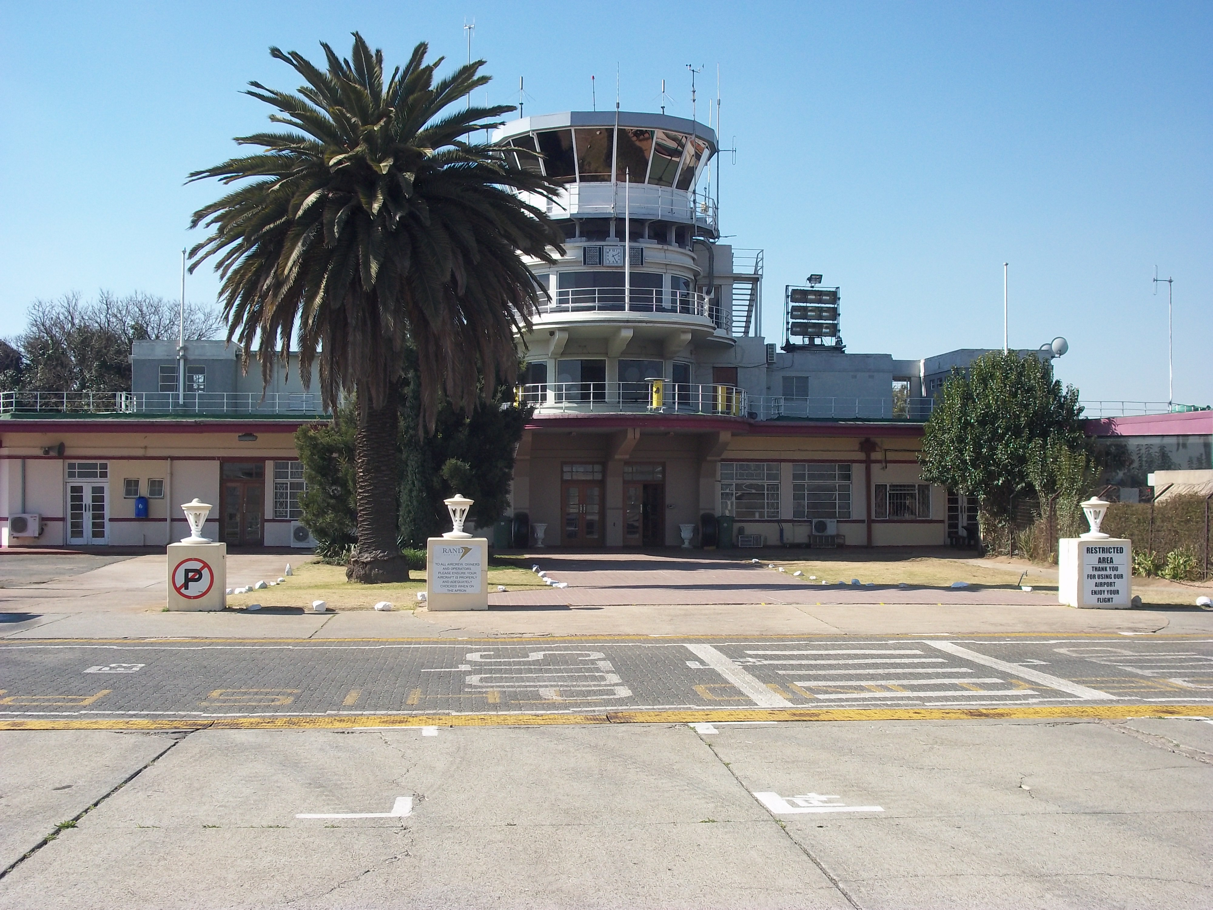 The control tower and main terminal building as seen from the airside.